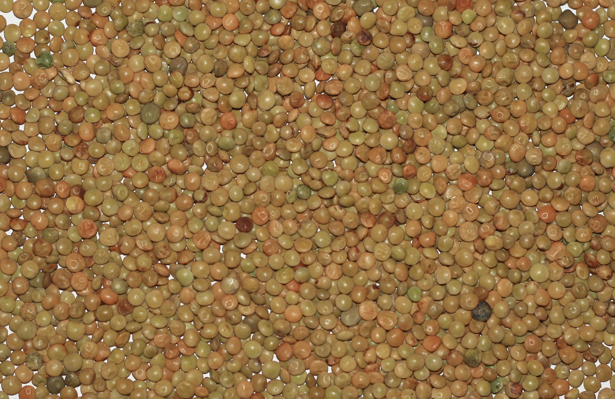 The traditional Alb lentil Type II, originating from the Swabian Alb, which were thought lost, but rediscovered at the Vavilov Institute of St. Petersburg in 2006.